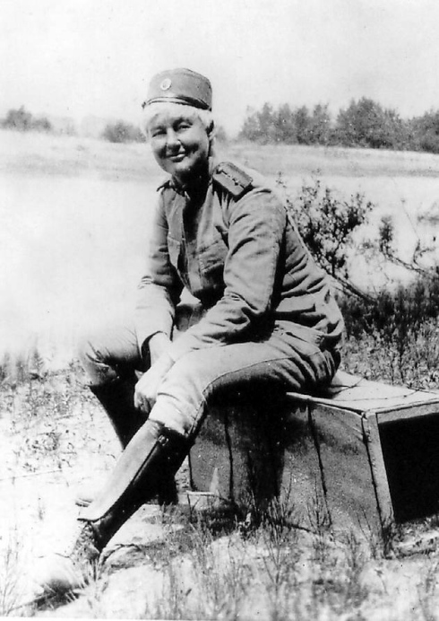 Flora Sandes in uniform, about 1918.